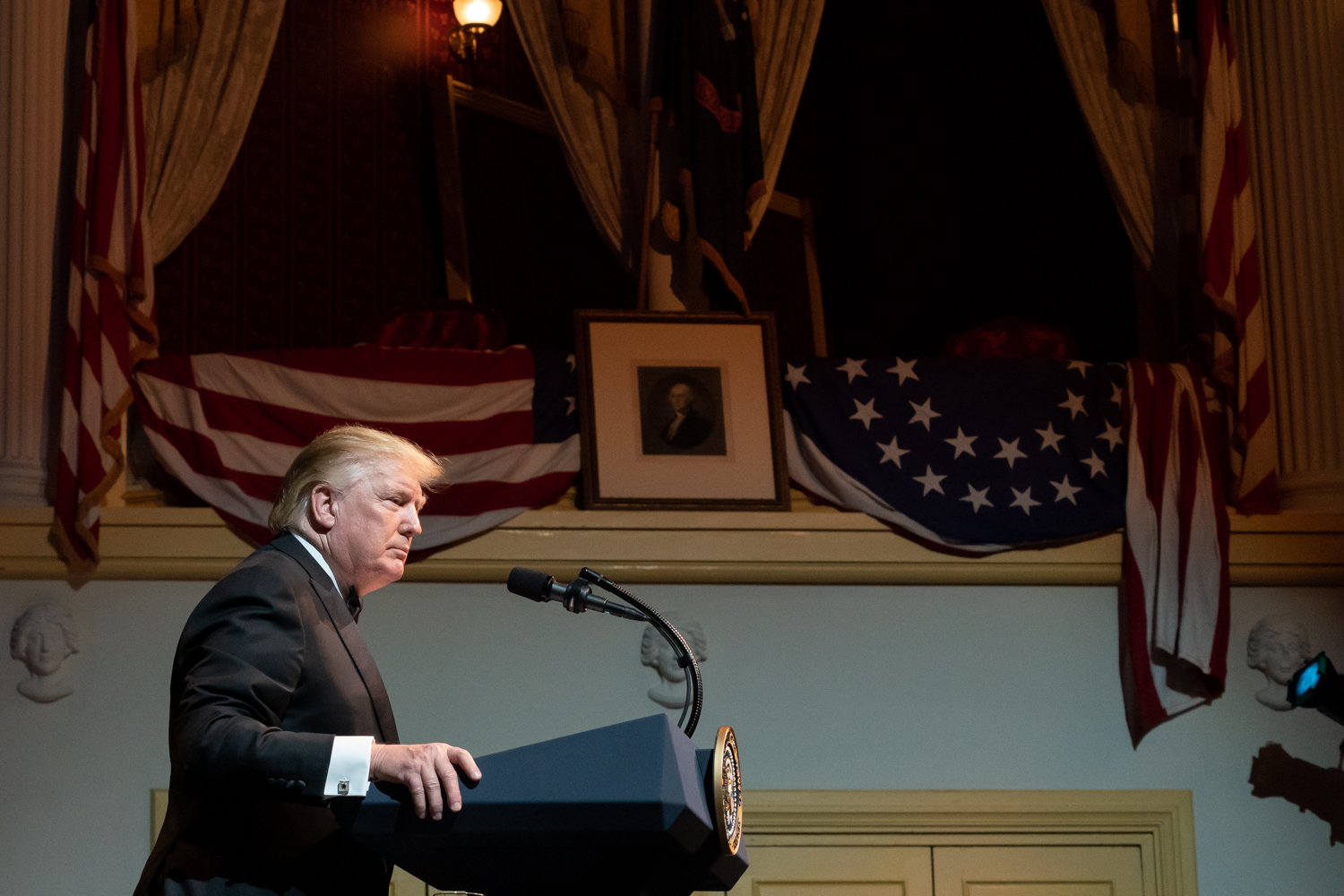 President Donald J. Trump addresses his remarks Sunday evening, June 2, 2019, during the Ford’s Theater Gala Performance in Washington, D.C. (Official White House Photo by Andrea Hanks)